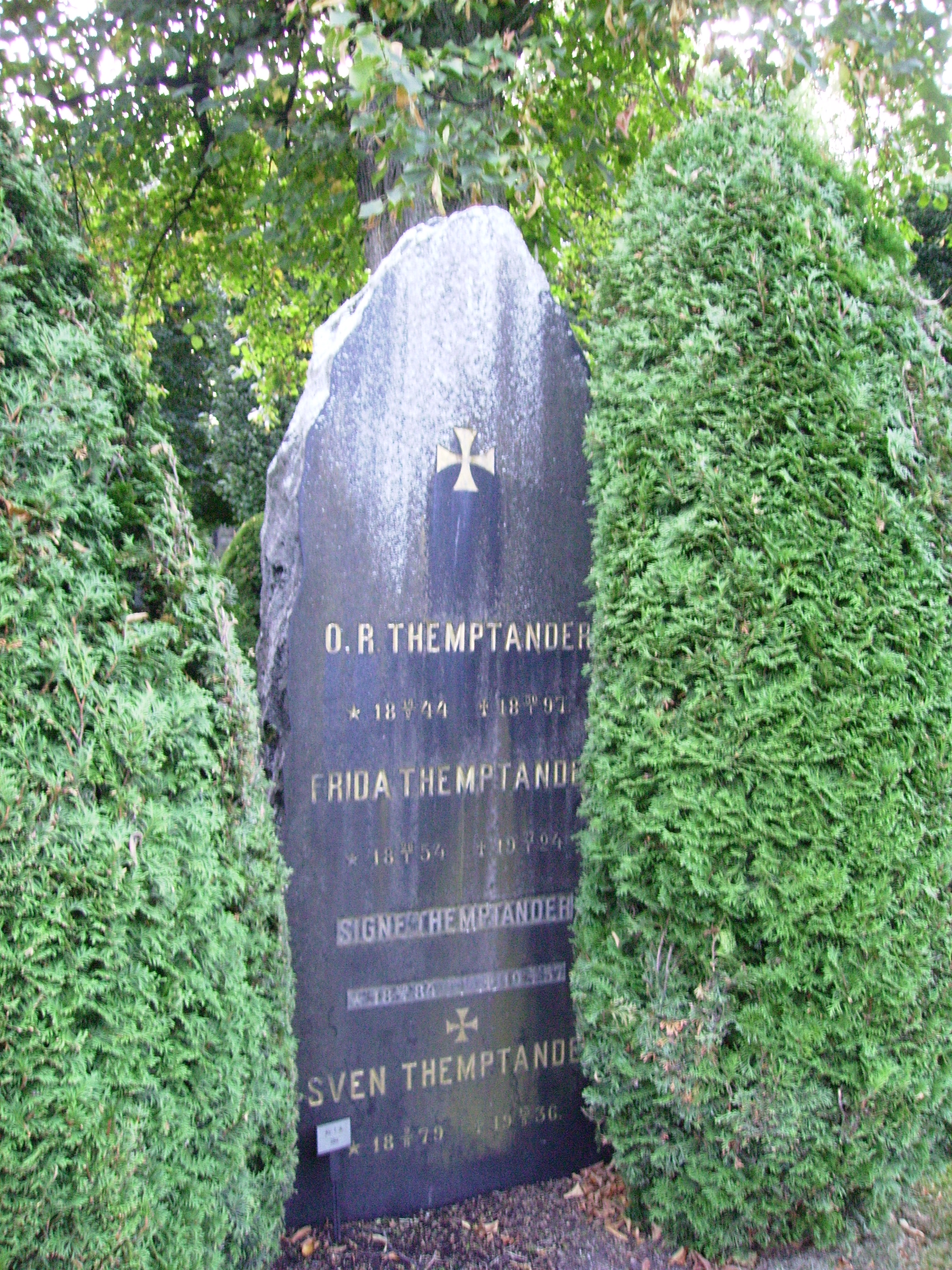 Picture of O. Robert Themptander's grave at Norra begravningsplatsen in Stockholm